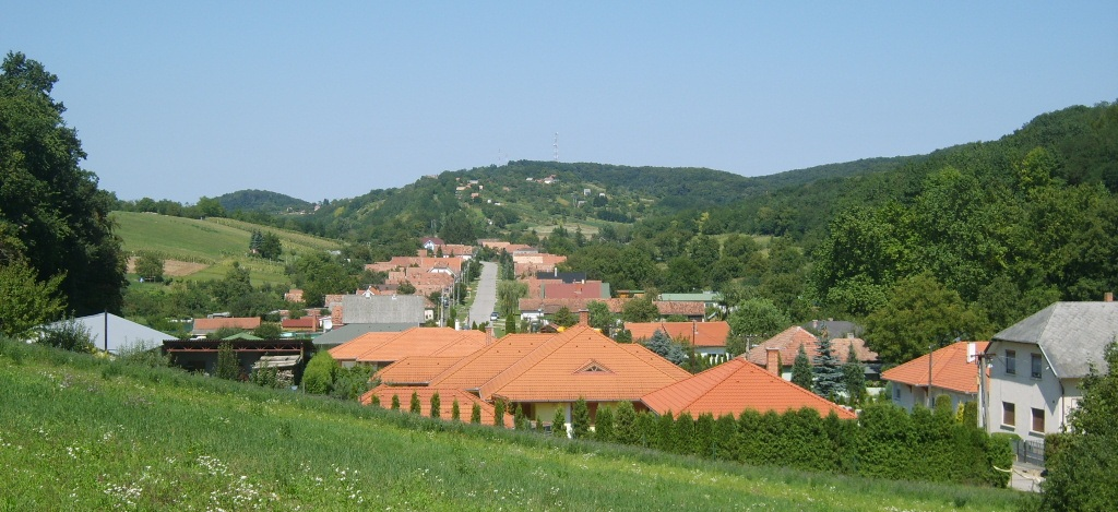 Botfa, Zalaegerszeg, Hungary